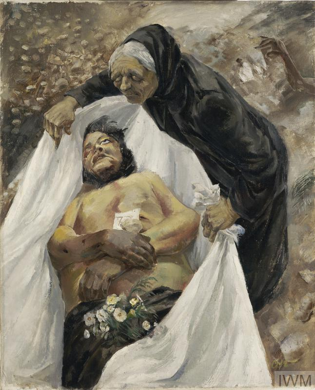 A priest partially wrapped in a white shroud is being mourned by a women in black.